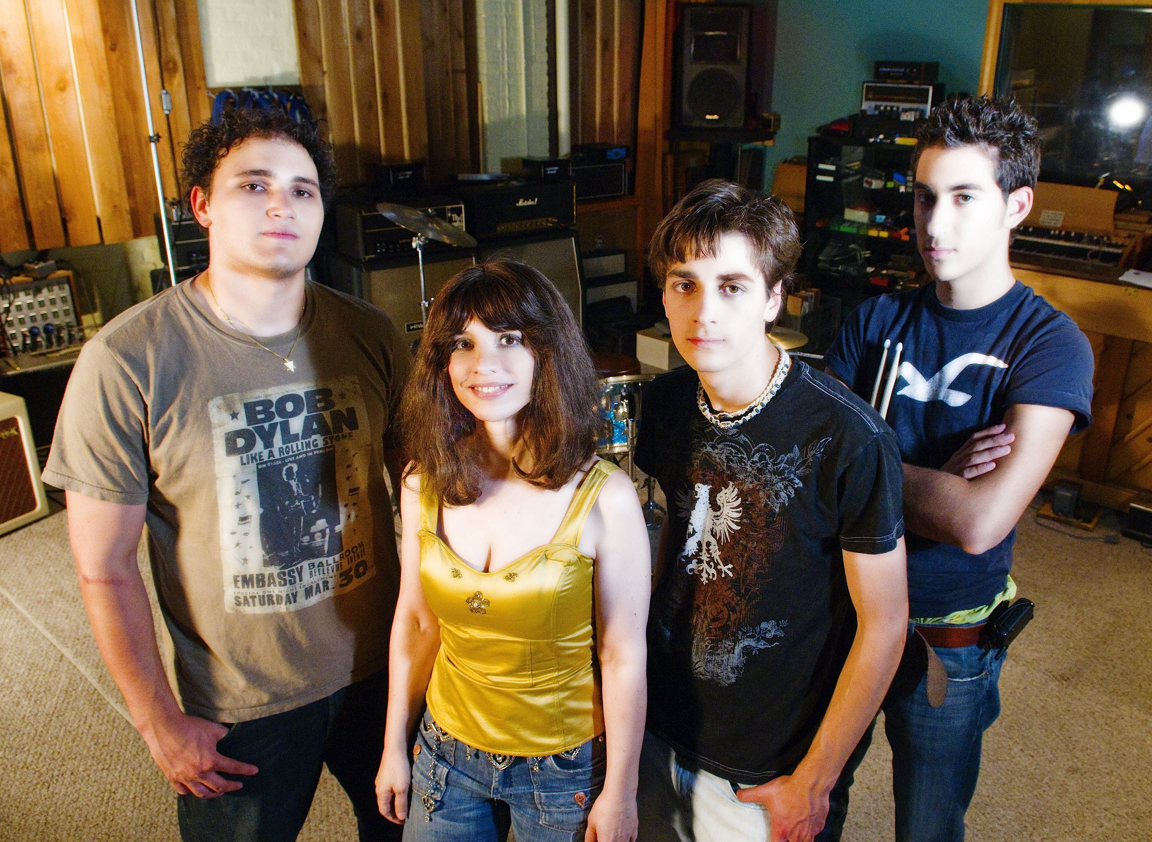 Author: Stephen Baranovics Owner: Catherine Asaro Permission granted by Catherine Asaro